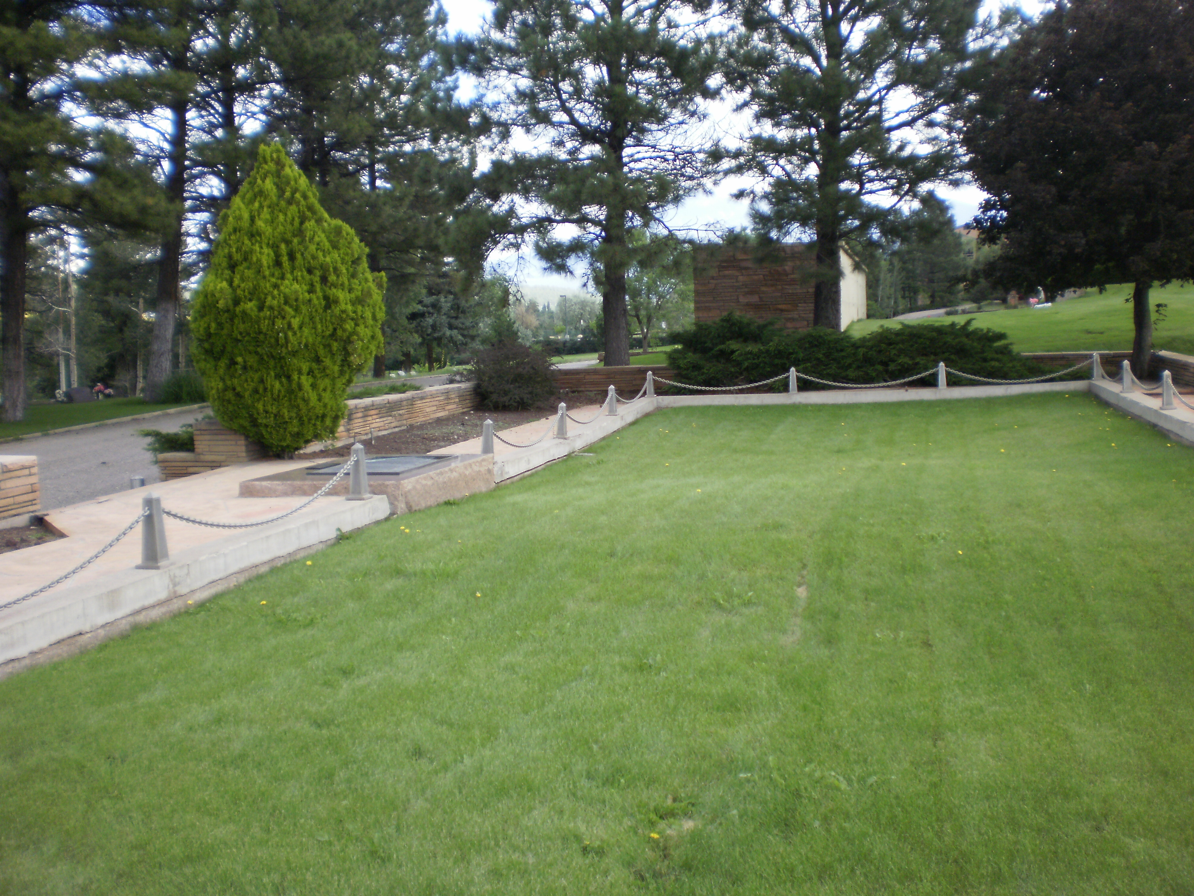 Burial site and memorial for the TWA passengers of the 1956 TWA/United Grand Canyon air disaster. Location is Citizen's Cemetery, Flagstaff, Arizona